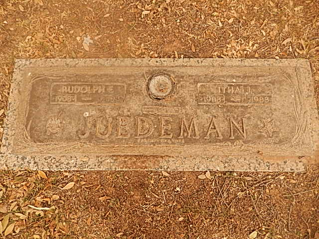 I took photo with Nikon camera in Sunset Memorial Gardens in Odessa, TX, of Rudy Juedeman grave.